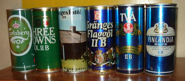 For swedish W. Beers of a type (klass IIB) that was prohibited for sale after 1:st of july 1977. The type had alc. 3.6% (of WEIGHT) and was reduced to 2.8 % (klass II). This was actually a big political issue i Sweden at the time. All cans are drunken pre july 1977, and (also) of old sheet metal type. (Theese type pf beer cans was subject to collection by "pre-beer drinking" kids in the mid and late 70's - until the aluminium can became common. (For swedish Wikipedia mainly)